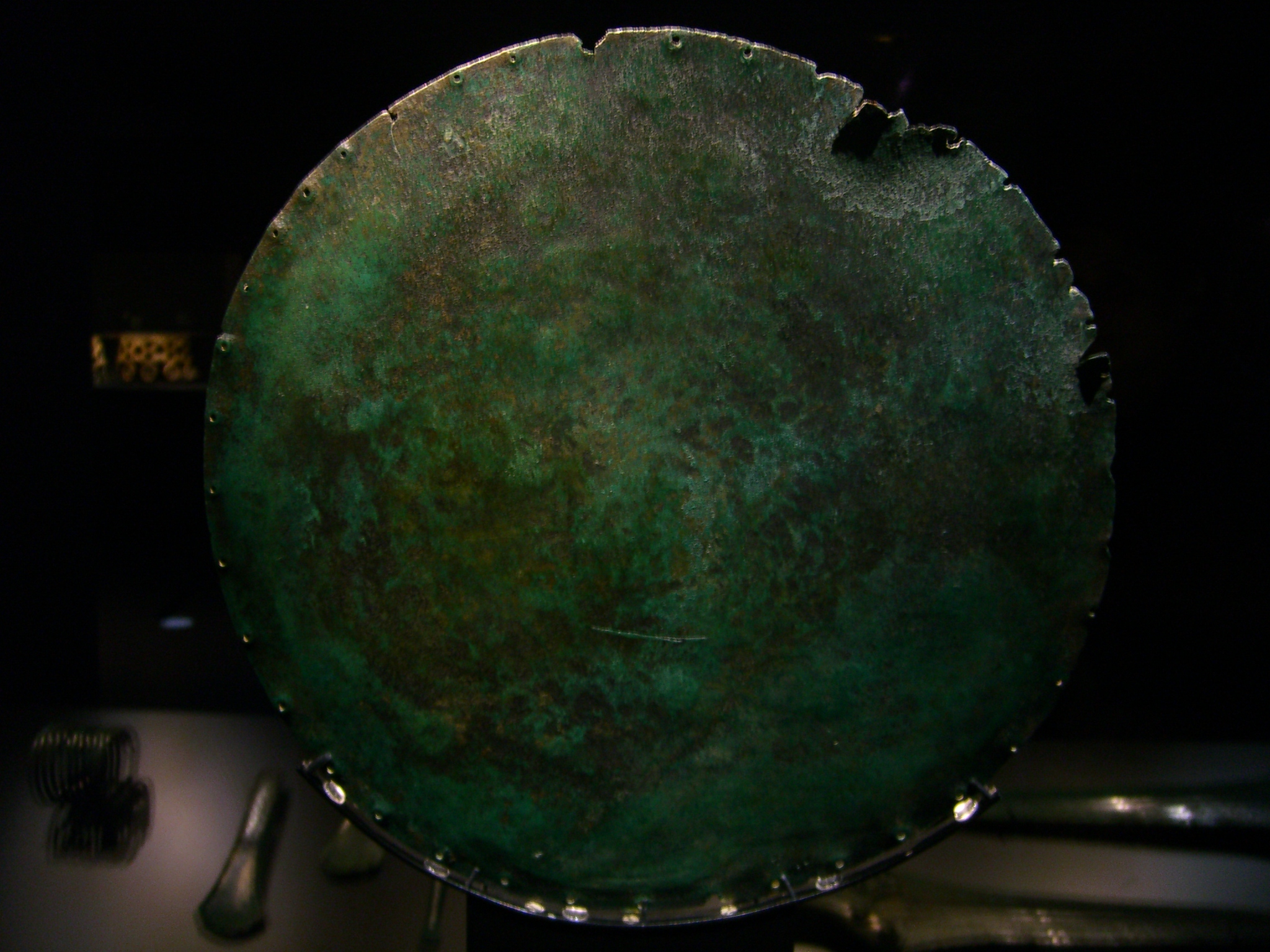 Back of the Nebra Sky Disk